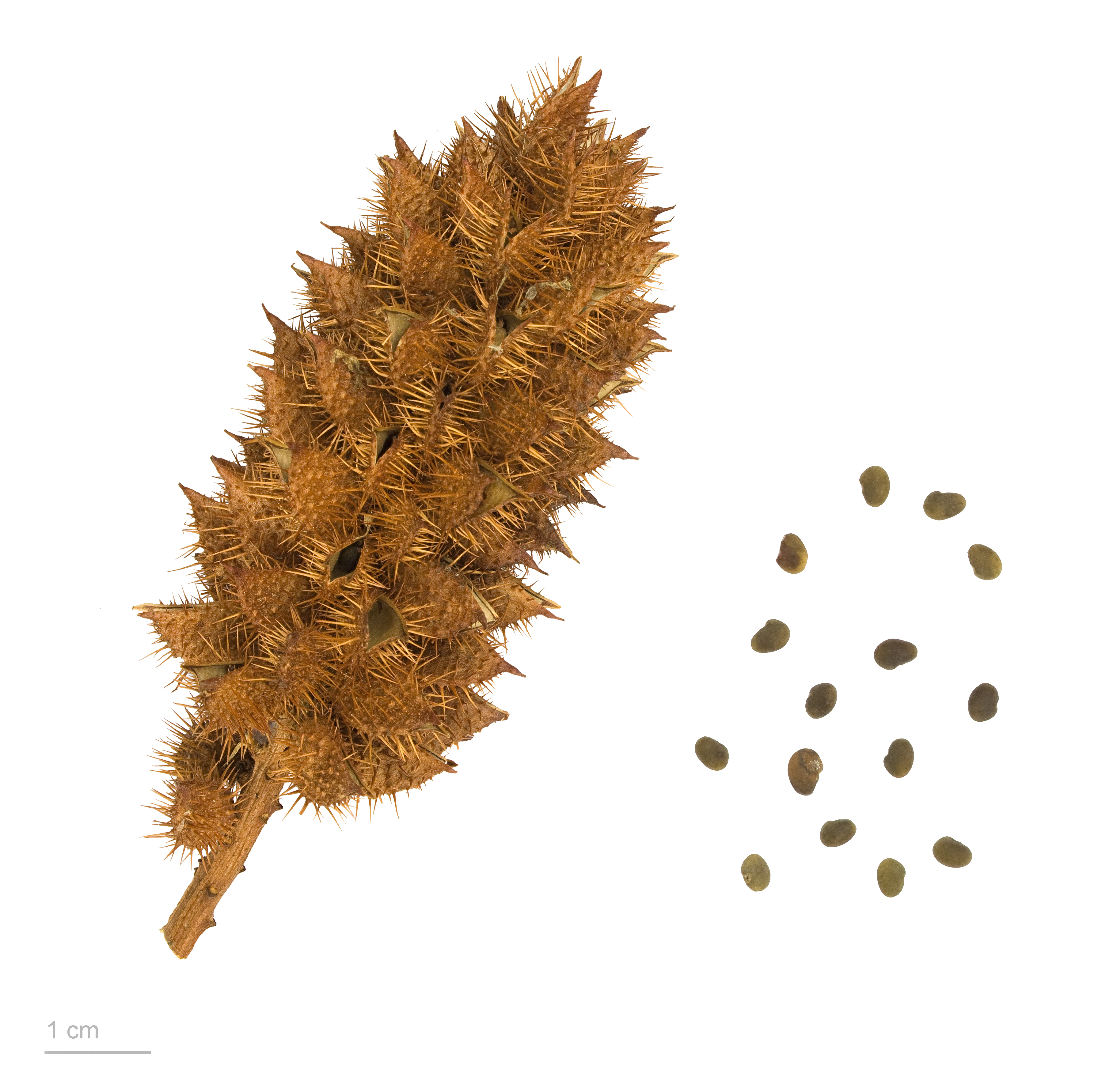 Liquorice , fruits and seeds